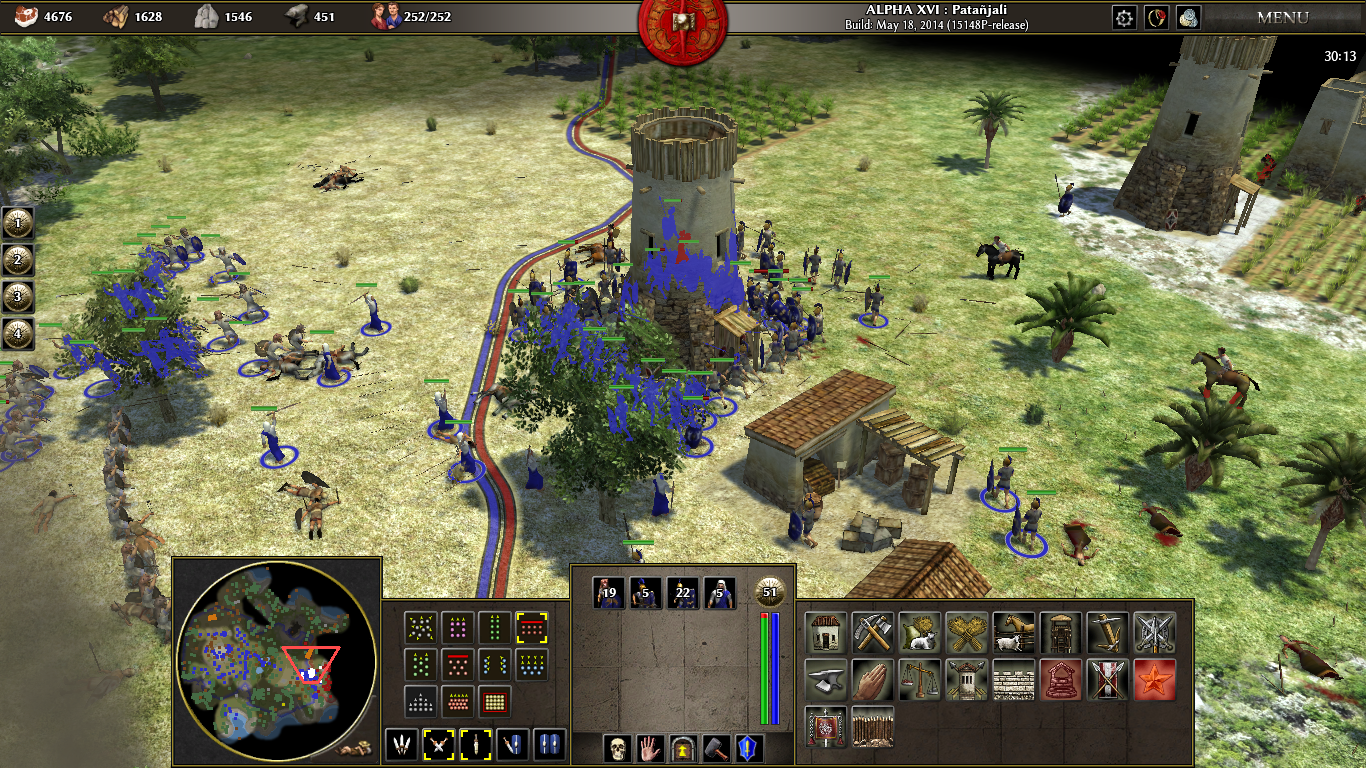 Screenshot of an ongoing battle in the RTS game 0 A.D, version Alpha 16.